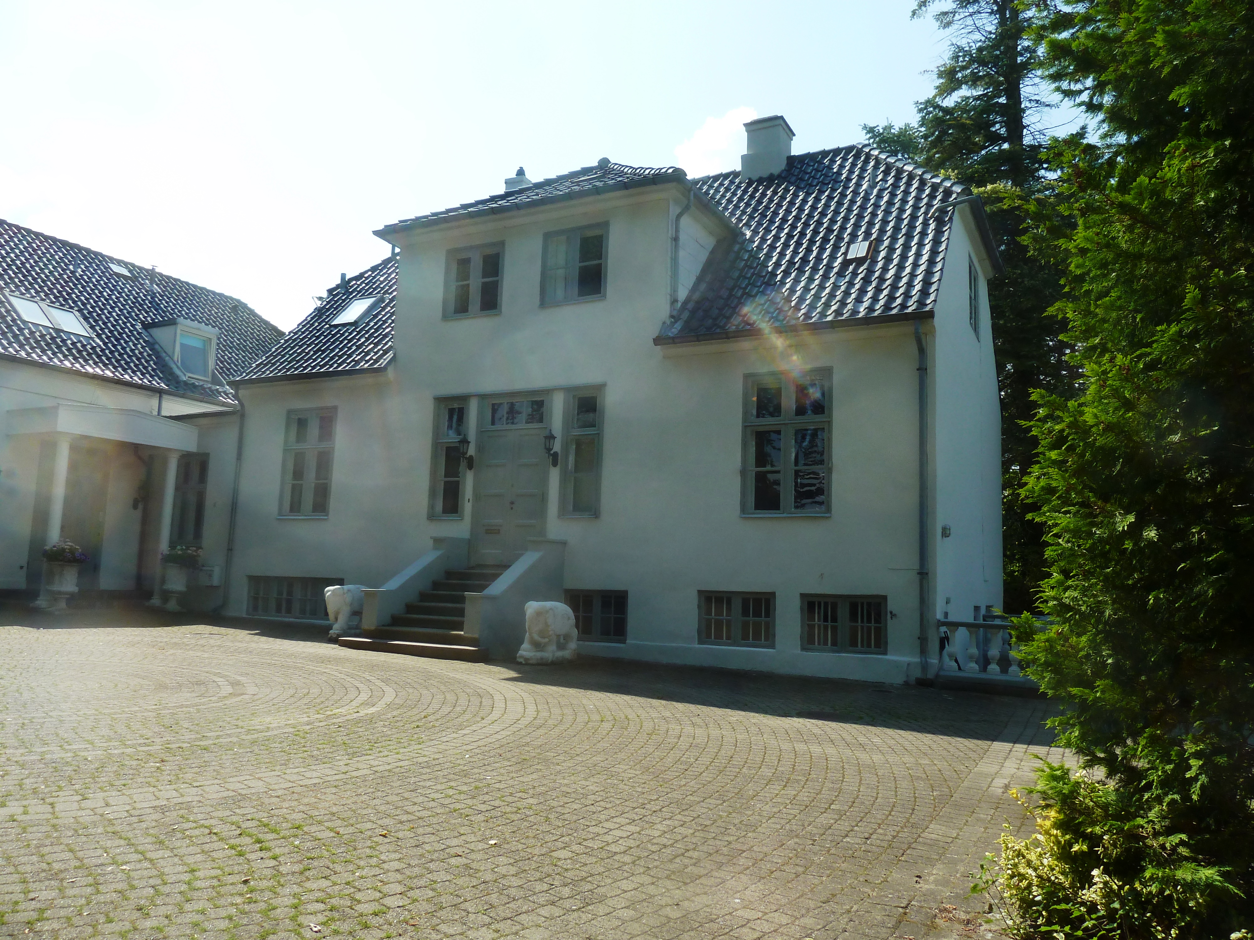 The house Lille Bernstorff in a corner of Bernstorff Park in Gentofte Municipality, Northern Copenhagen, Denmark